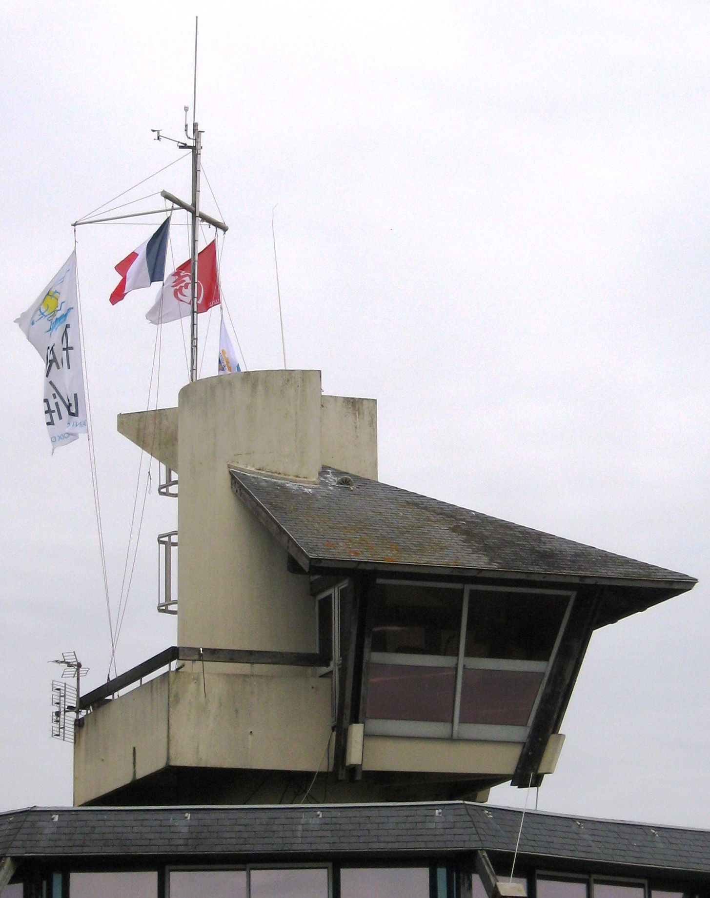 Harbour PORT LA VIE of Saint Gilles Croix de Vie office PORT LIFE of Saint Gilles Cross of Life, the Vendée (85), France, Latitude 46°41,4' N Longitude 01°57,4' W. Antenna VHF of Harbour office to enter in communication with stations of the maritime mobile service on the frequencies: 156.45 MHz channel N° 09: Harbour operations of pleasure, P: 1W FM 156.6 MHz channel N° 12: Harbour operations of trade or fishing, P: 1W FM